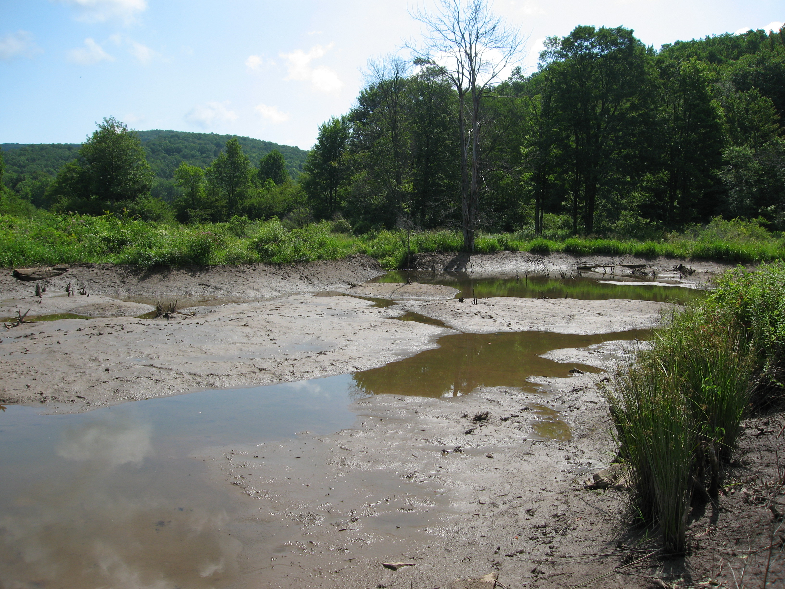 A beaver dam in Allegheny State Park NY has burst and the beaver pond been drained of its water.